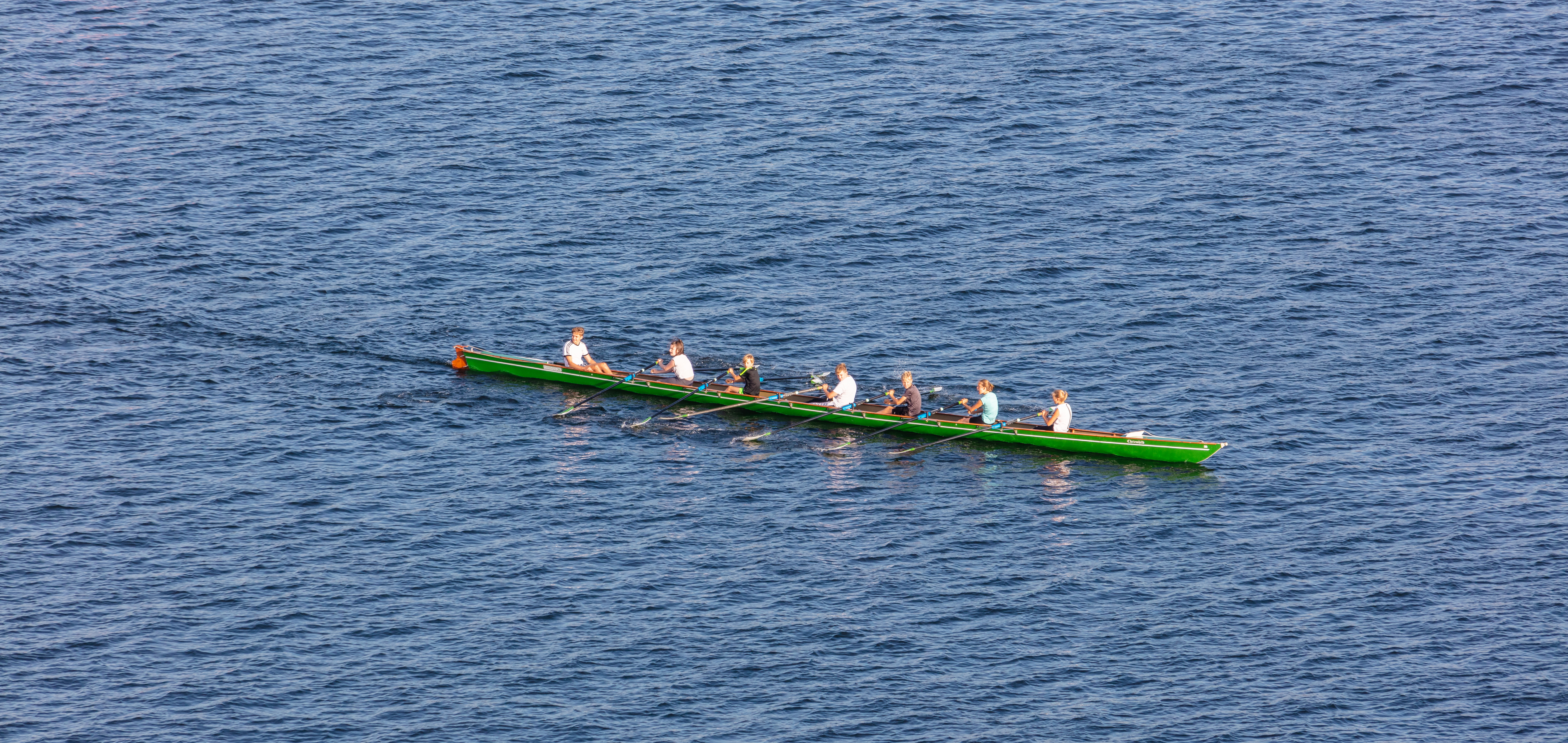 Rowing boat, Kiel, Germany